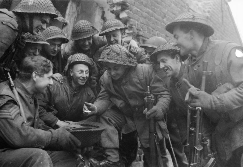 The British Army in North-west Europe 1944-45 Private W Allen (centre) and other men of the 1st South Lancashire Regiment draw lots to decide who will get UK leave, 1 January 1945. Allen and his pal Private Butler (right) drew the lucky numbers and went on leave together.